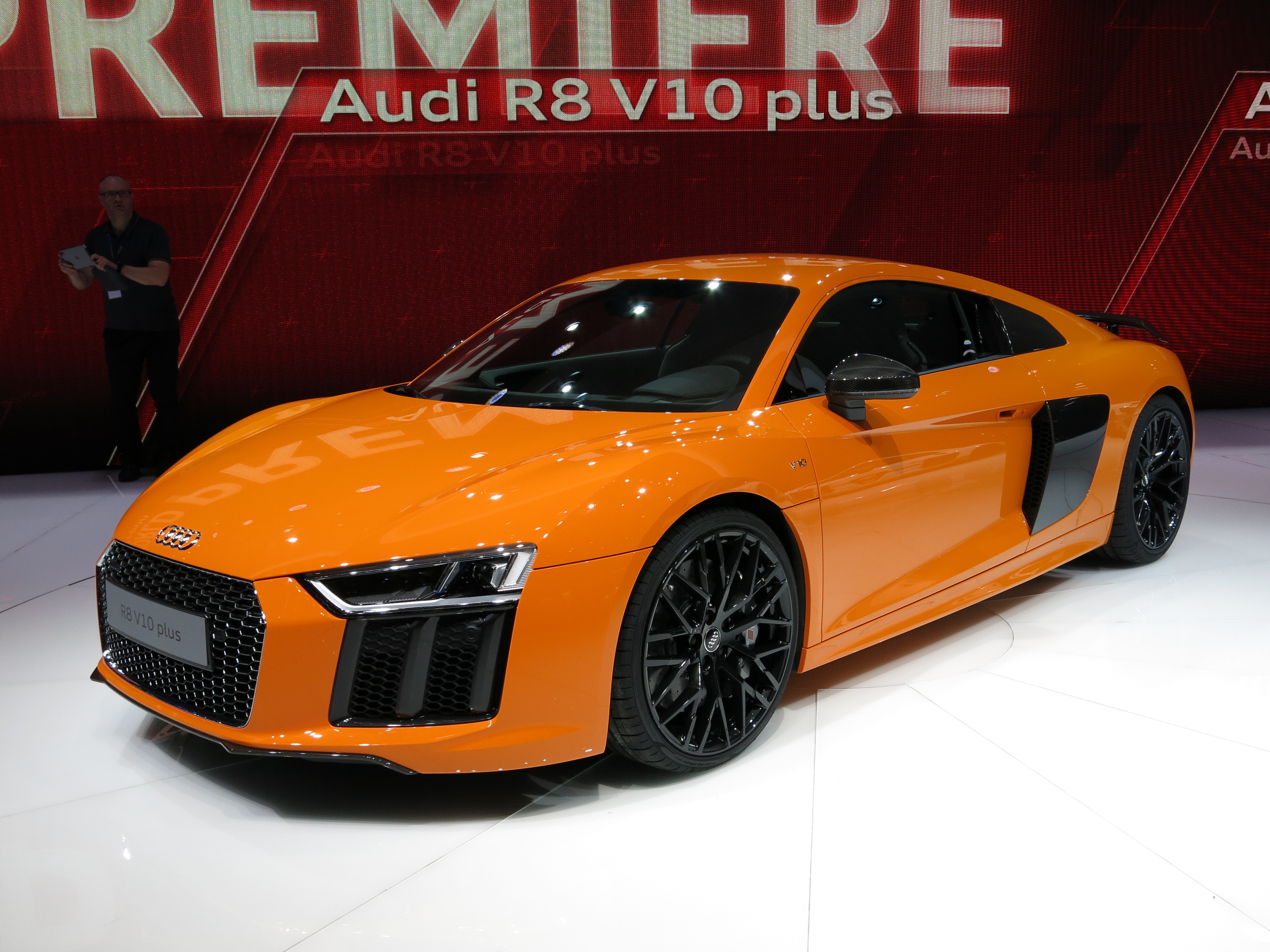 Geneva Motor Show 2015 (photo taken on the first press day)